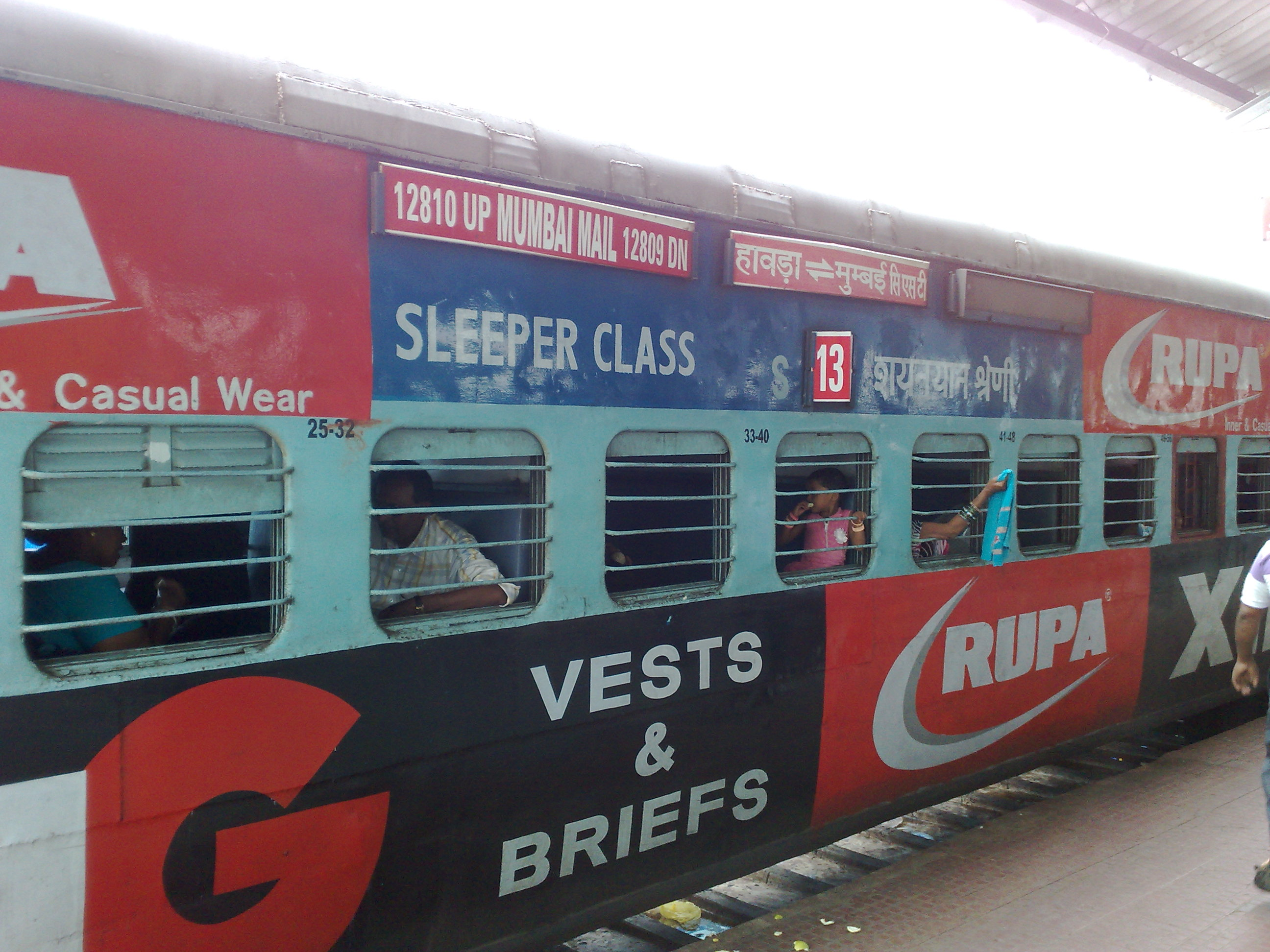 Howrah Mumbai Mail - Sleeper Coach - Lucky Number 13